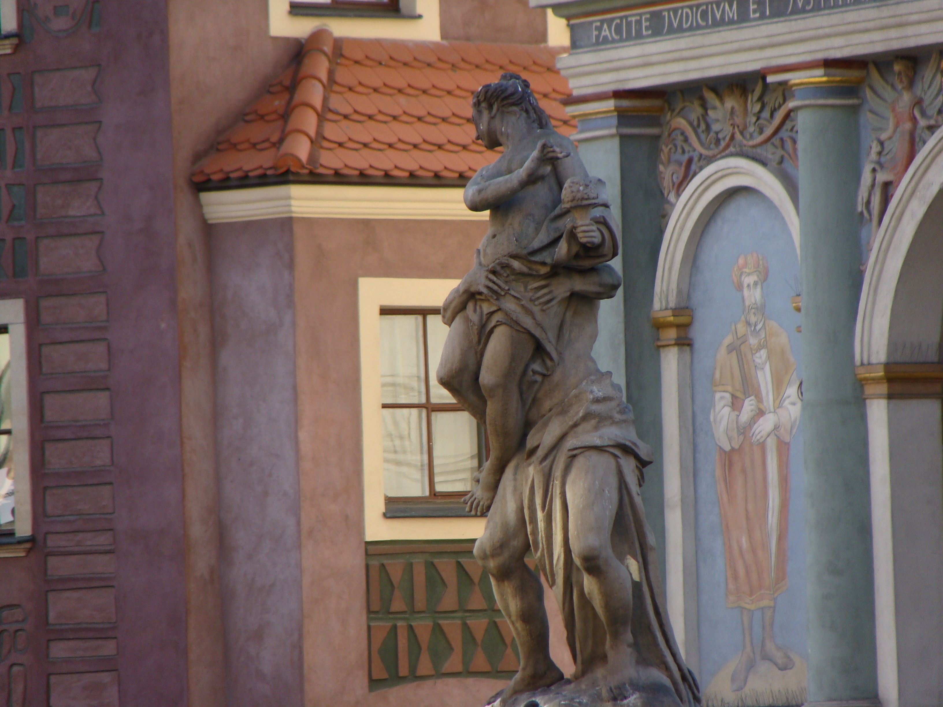 The Rape of Proserpina, fountain in Poznań, Poland